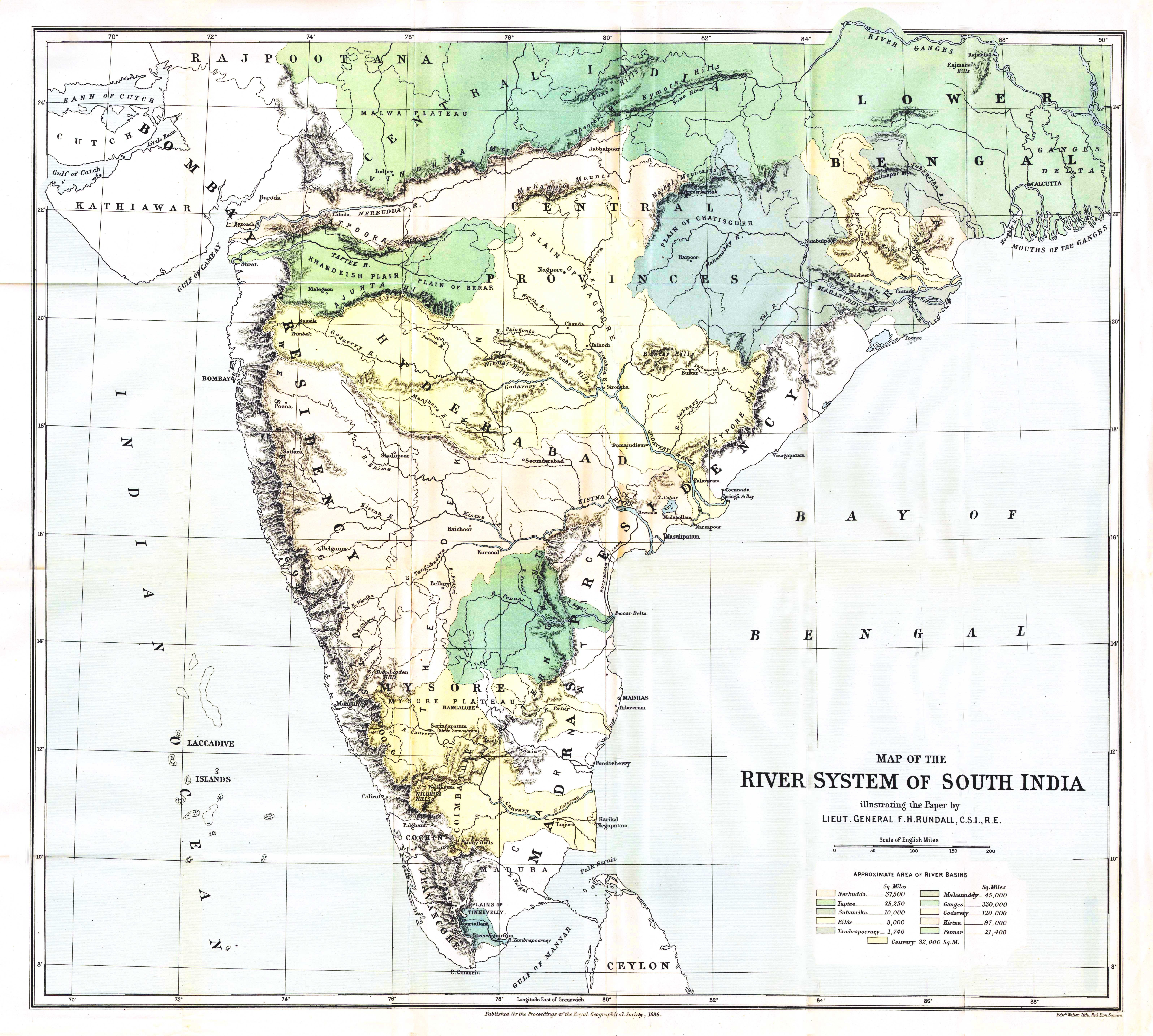 River system of southern India